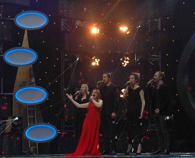 Polish singer Dorota Osińska during rehearsals for performance in Polish National Final of ESC 2016